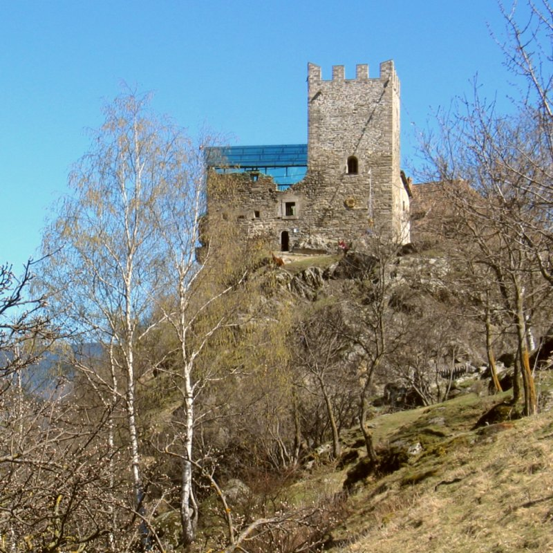 Castel Juval, tower and glass roof